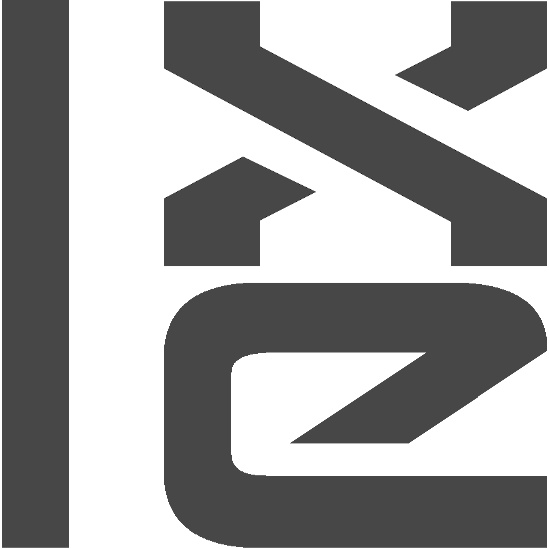 LXLE Linux Logo